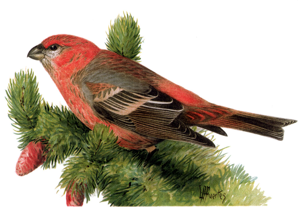 Pine Grosbeak (Pinicola enucleator), chromolithograph after painting (watercolor)